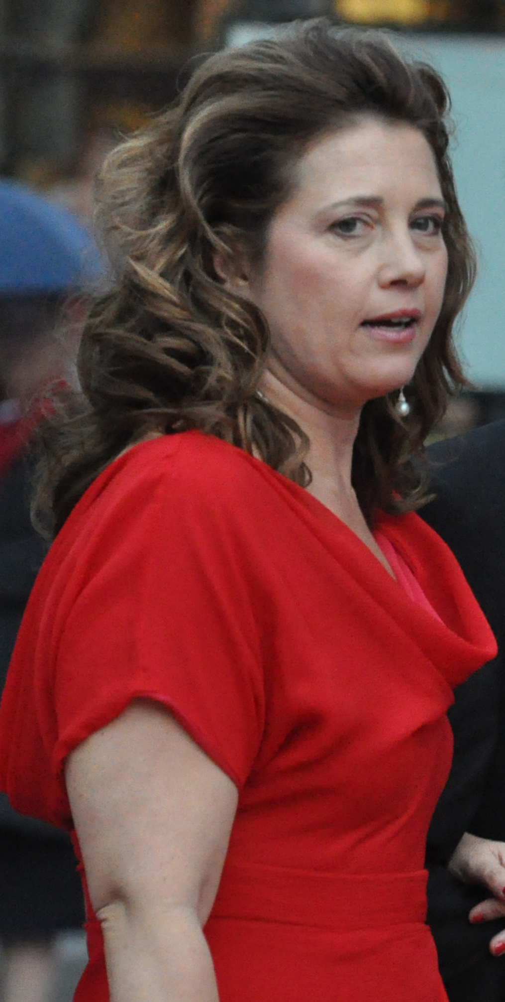 Wedding of Victoria, Crown Princess of Sweden, and Daniel Westling; Arrival of members for the Gouvernment and Swedish and foreign guests of hounour to the Riksdag's Gala Performance at Konserthuset